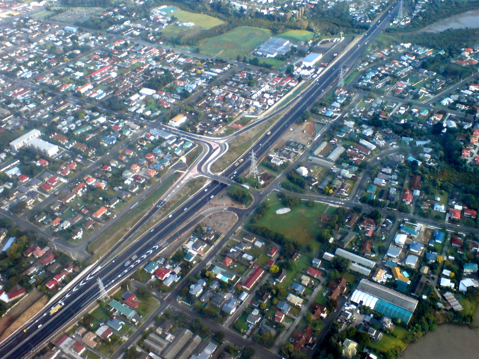 Section of Auckland Southern Motorway (part of State Highway 1) in Otahuhu, South Auckland, New Zealand